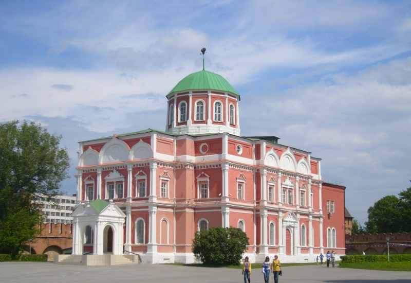 Bogoyavlenskiy Cathedral of the Tula Kremlin